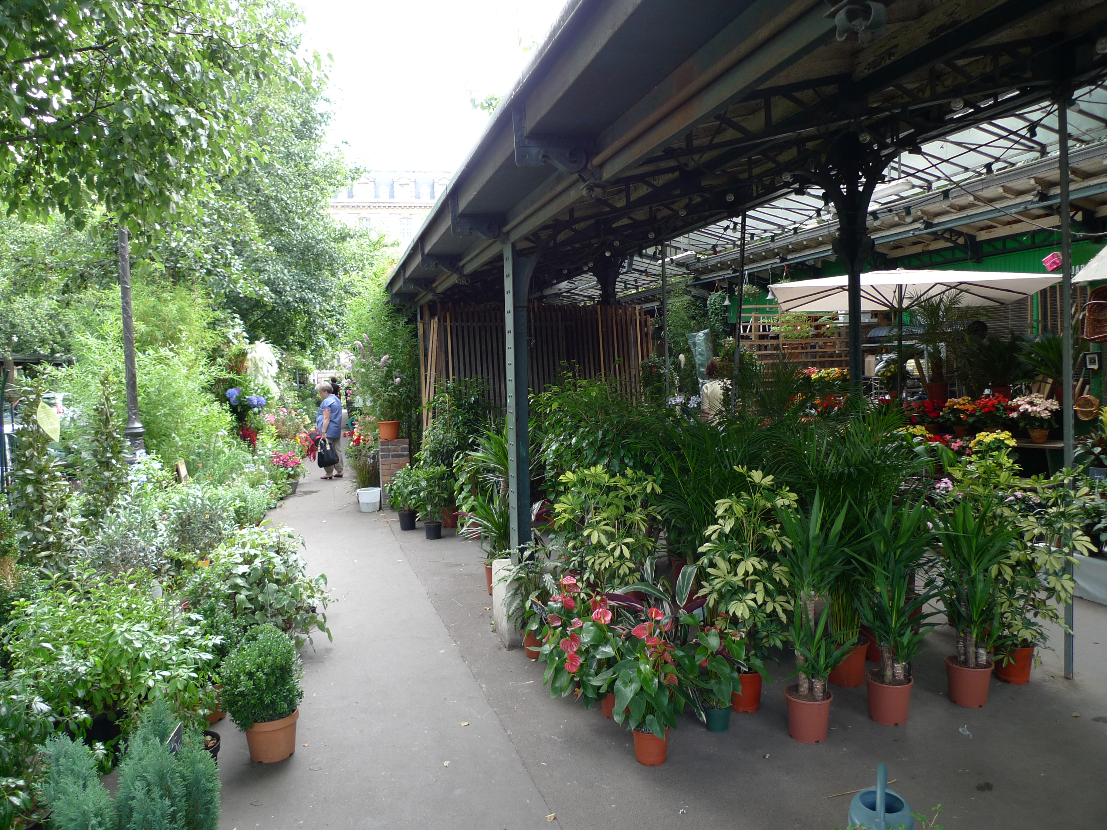 flower market in central paris france